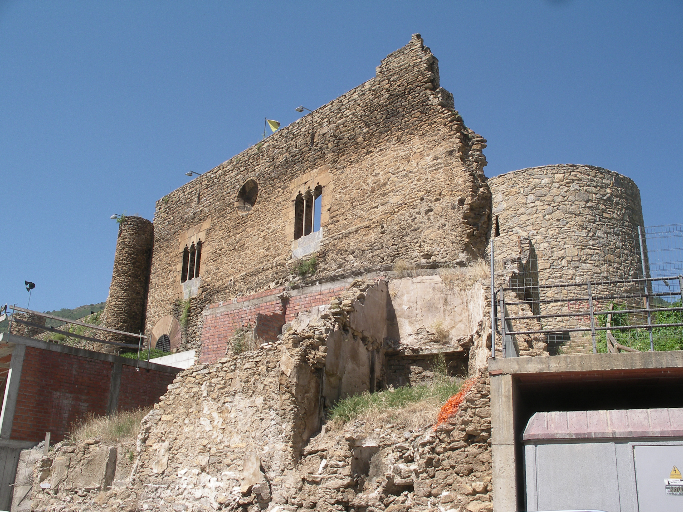 Castle and palace of the counts of Pallars, at Sort, Catalonia, Spain